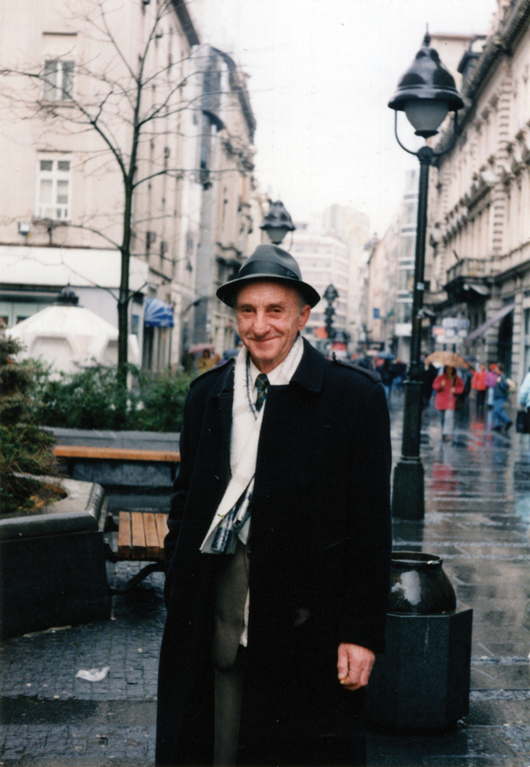 Danilo Nikolić in the Knez Mihailova Street in Belgrade in 1997. Српски (ћирилица): Данило у Кнез Михаиловој улици у Београду 23.4.1997.